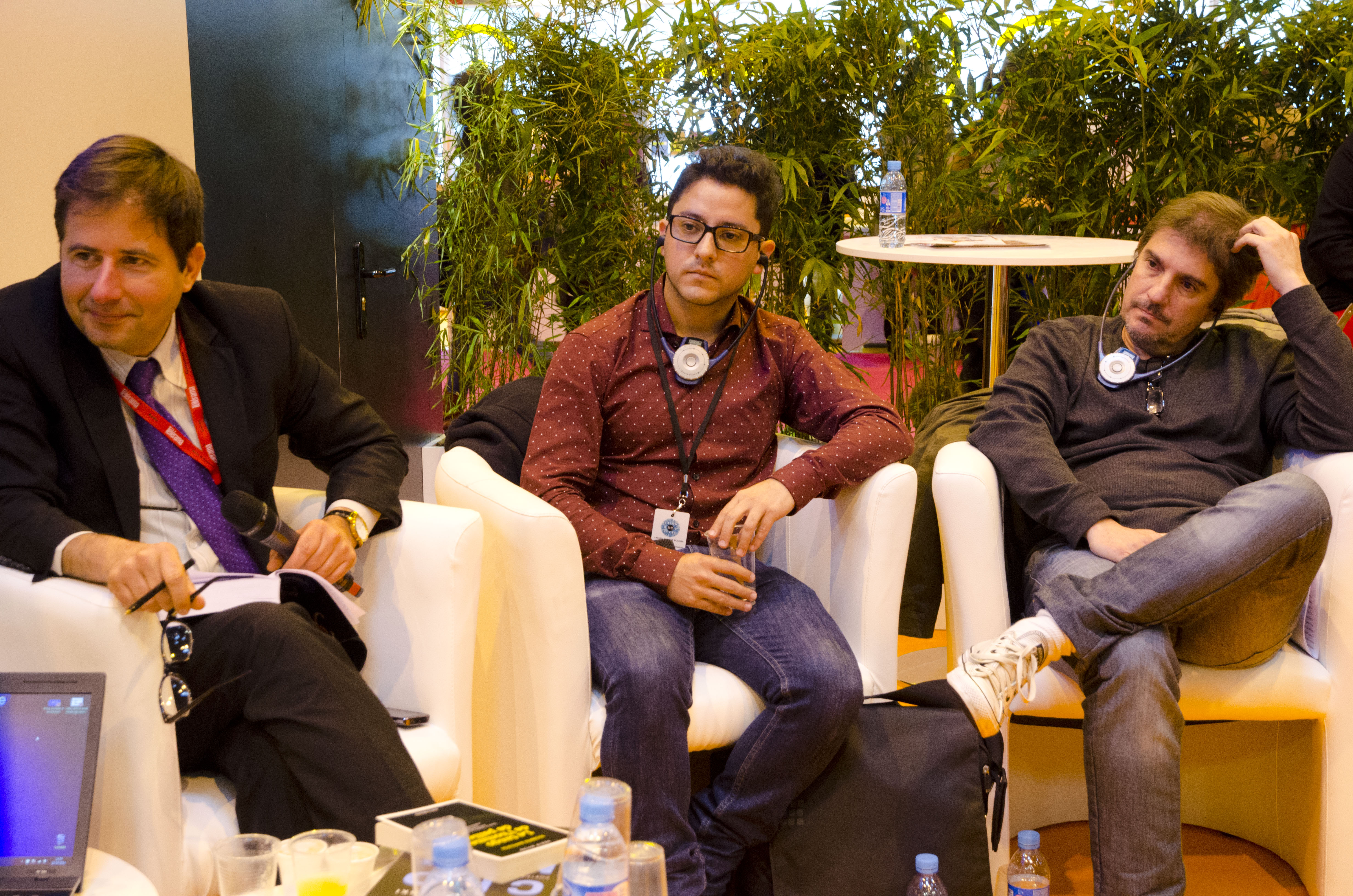 Paris, March 21, 2014 - Sergio Bizzio, Guillermo Saccomanno, Jorge Avalos Blacha Leando Consiglio and participated in the table "Literature margins" in the Paris Book Fair 2014 Pictures: Augusto Starita / Ministry of Culture.